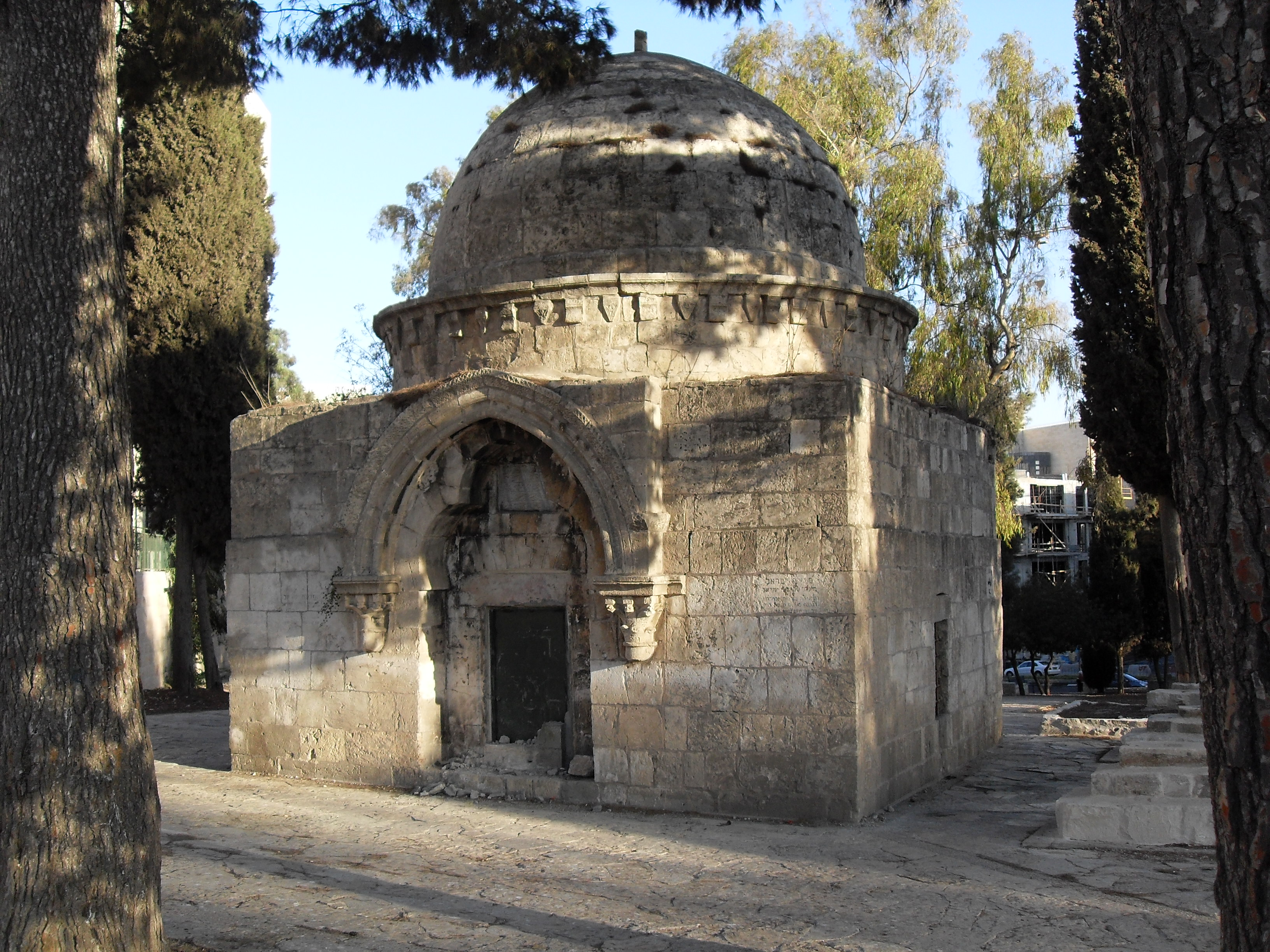 Jerusalem Mamilla cemetery mausoleum north Jerusalem Mamilla cemetery - Funerary Chapel called El Kebekiyeh (or Kubakia). Domed grave of emir Aidughi kubaki, buried in 1289.